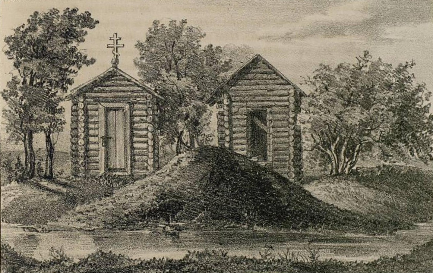 Местность монастыря в 1859 году.